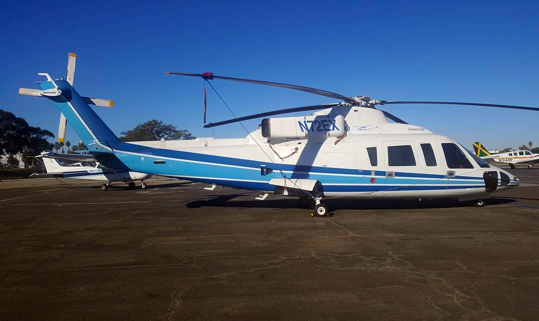 The helicopter that killed Kobe N72EX by Don Ramey Logan